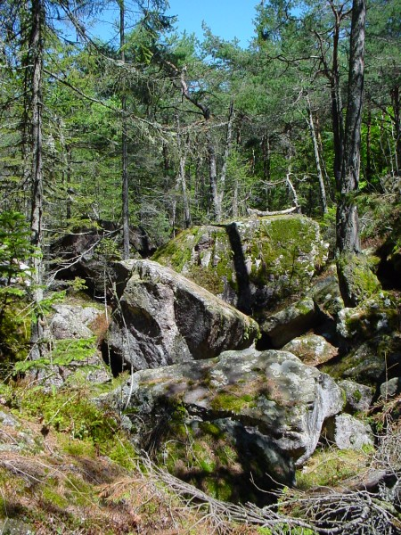 Eppan Ice Holes, near Eppan/Appiano (South Tyrol, Italy)